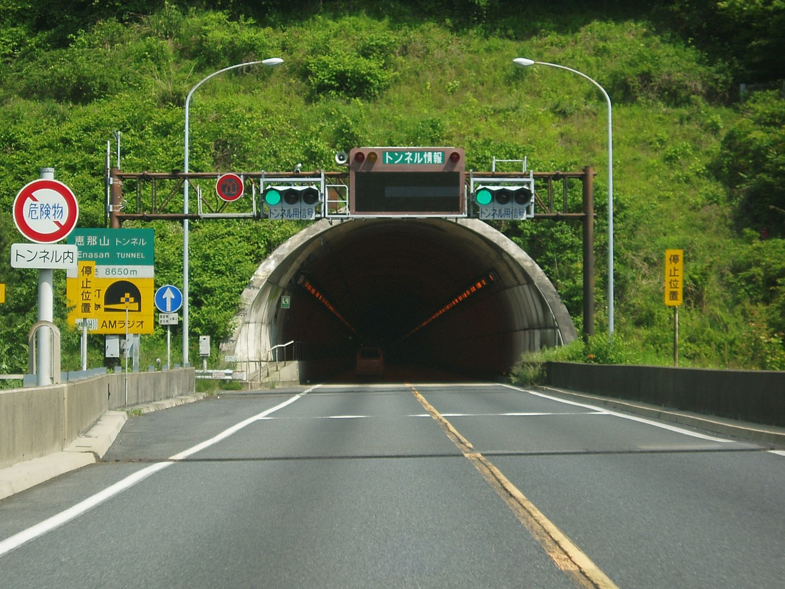 Enasan Tunnel on the Chuo Expressway inbound line for Tokyo